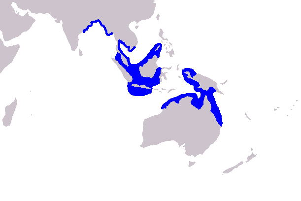 Orcaella brevirostris distribution map Orcaella genus distribution map. Dysmorodrepanis 10:51, 23 July 2007 (UTC)